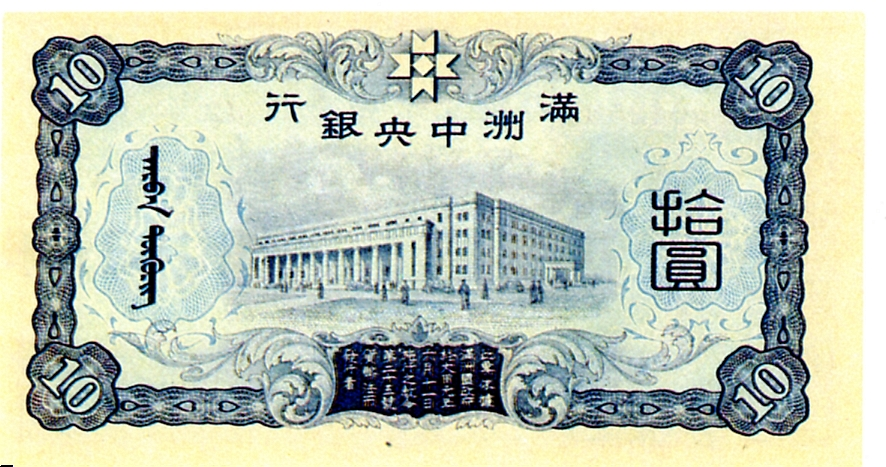 Manchukuo 10-yean banknote, reverse side